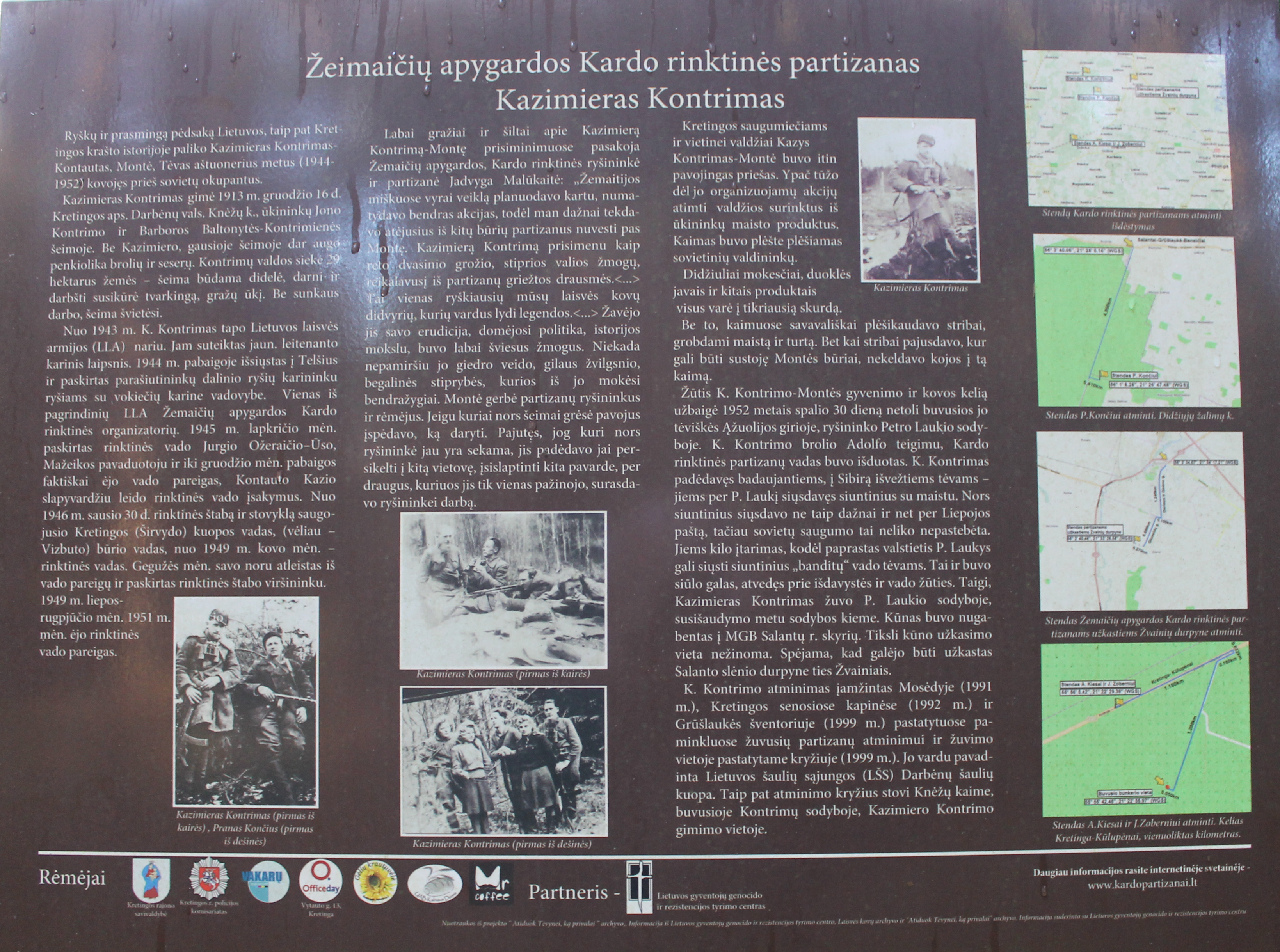 The disappearance of the partisan commander Kazimieras Kontrimas in the village of Kumpikai, Kretinga district municipality, LithuaniaLietuvių: Partizanų vado Kazimiero Kontrimo žuvimo vieta Kumpikų kaime, Kretingos rajono savivaldybė, Lietuva